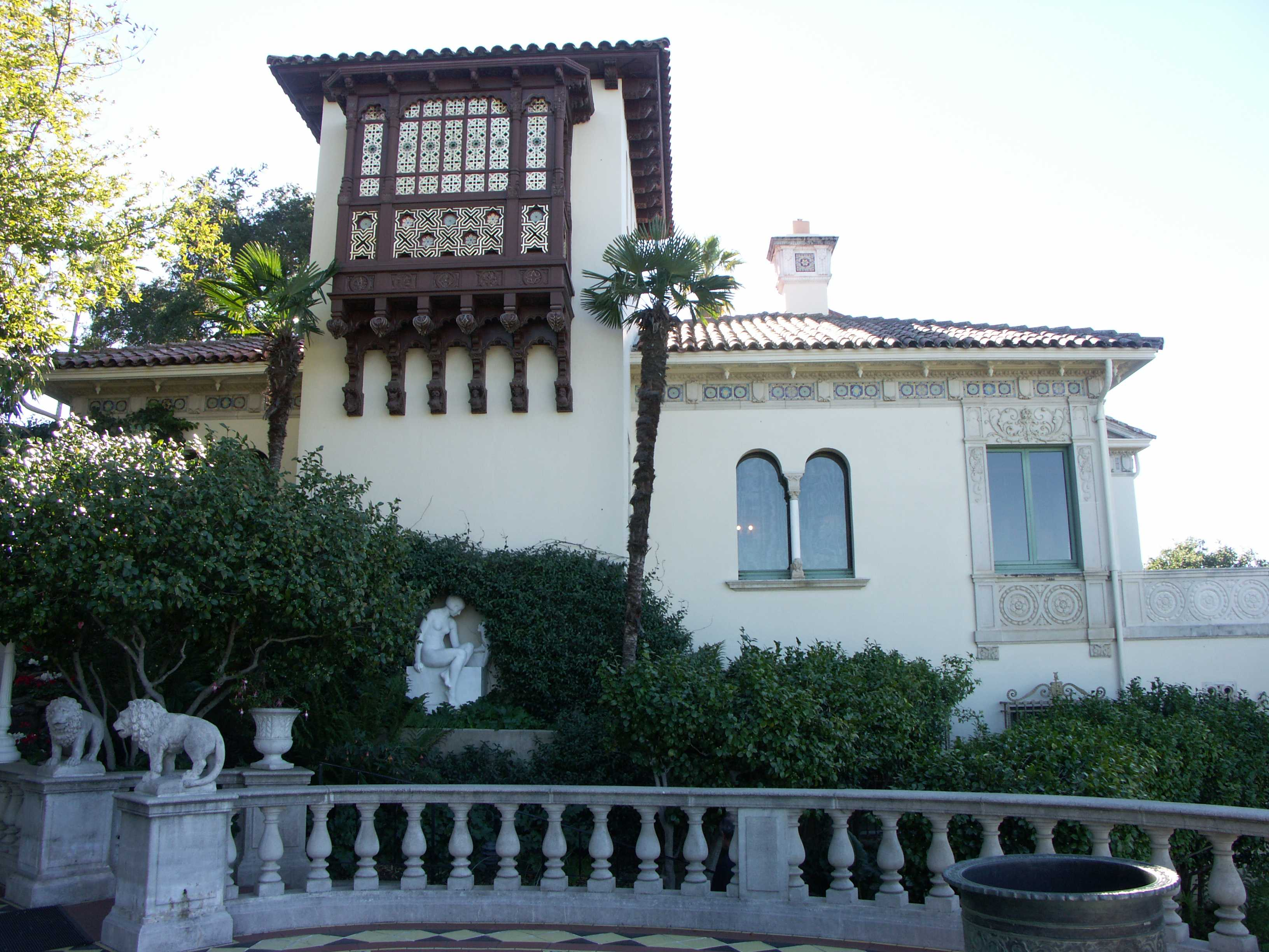 Hearst Castle - Casa del Sol (guest house) north wall + window